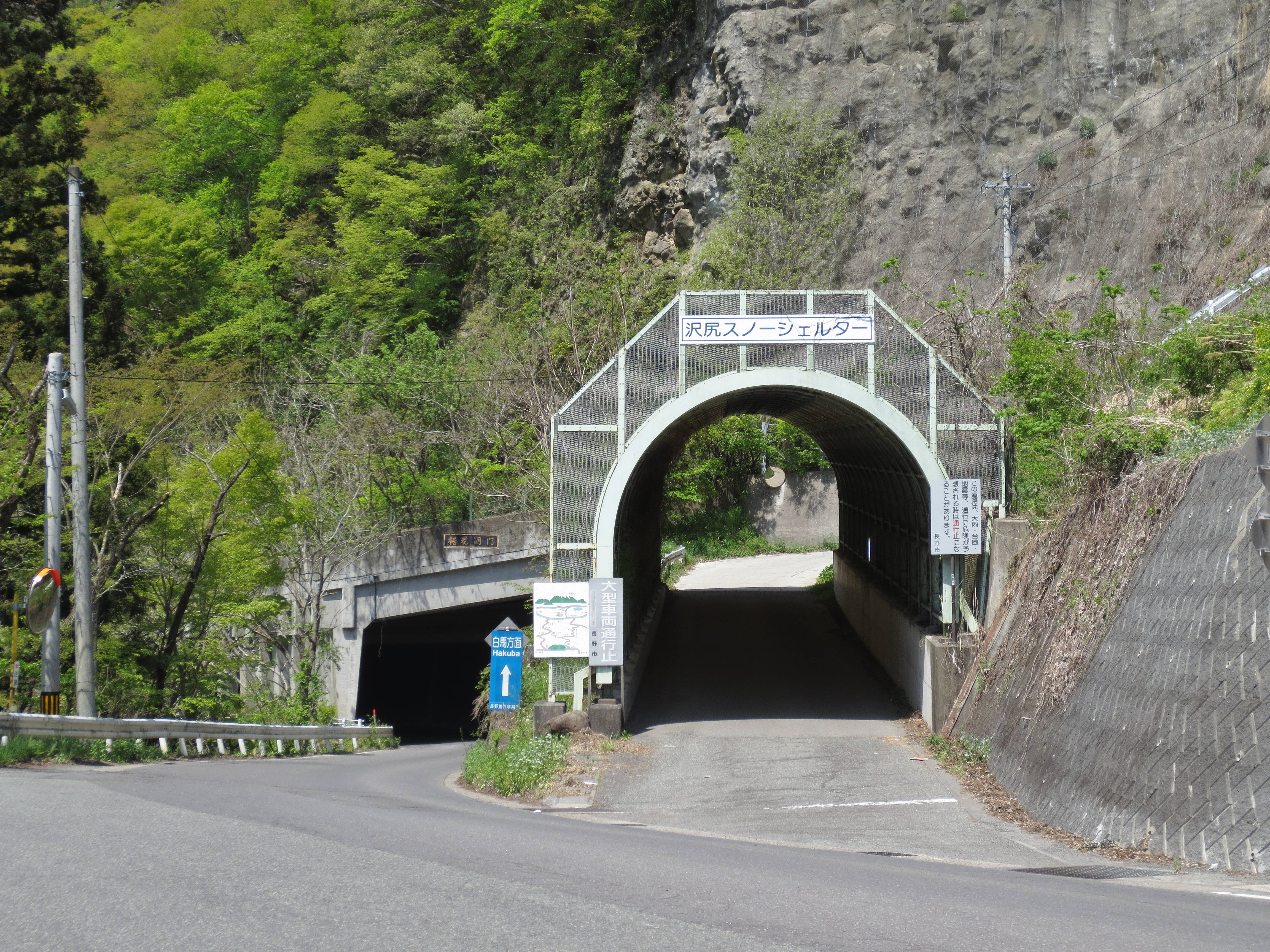 Japan National Route 406 Susobana domon and Sawajiri snow shelter.